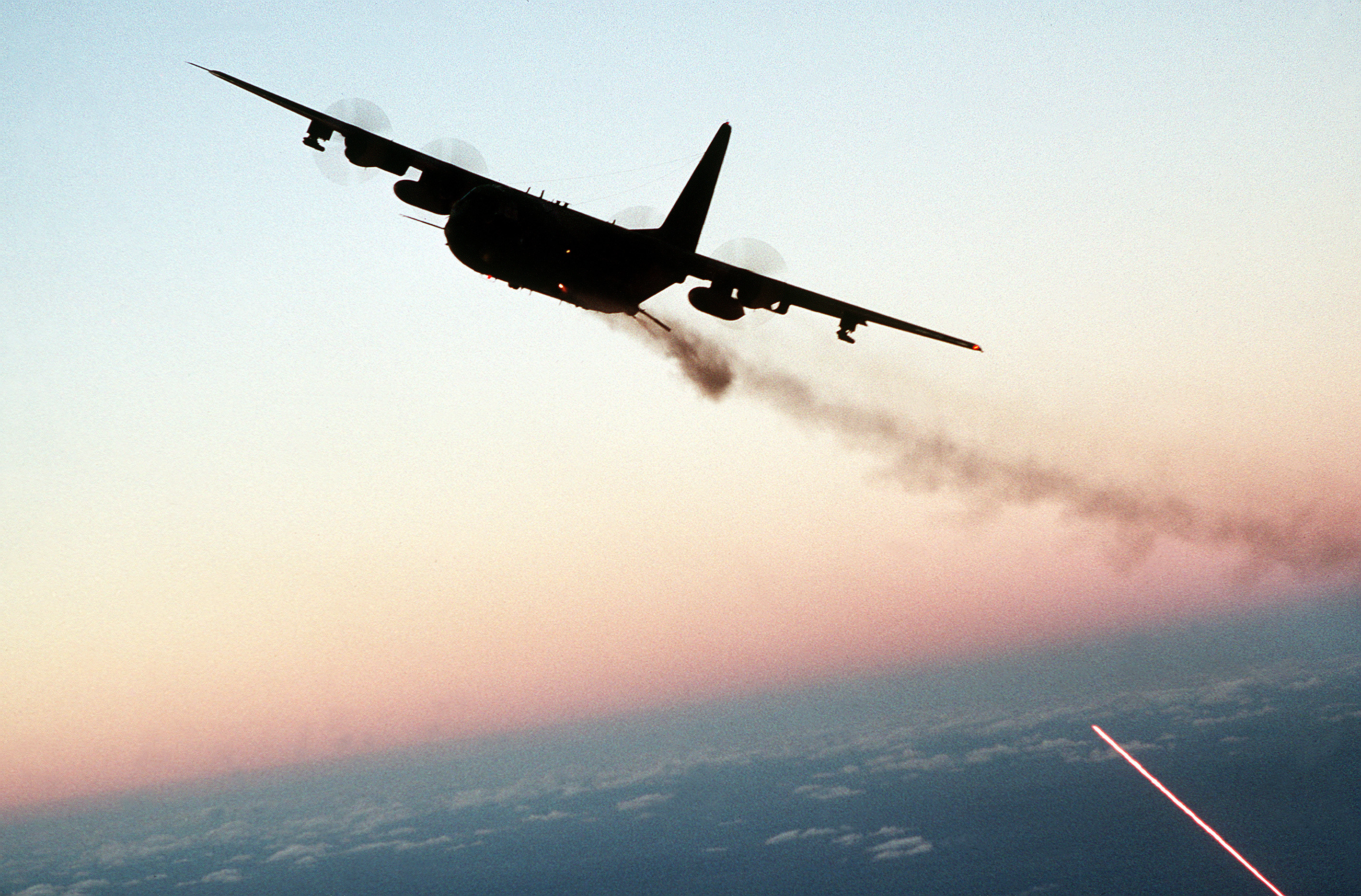 A AC-130 Hercules aircraft banks to the left near Hurlburt Field